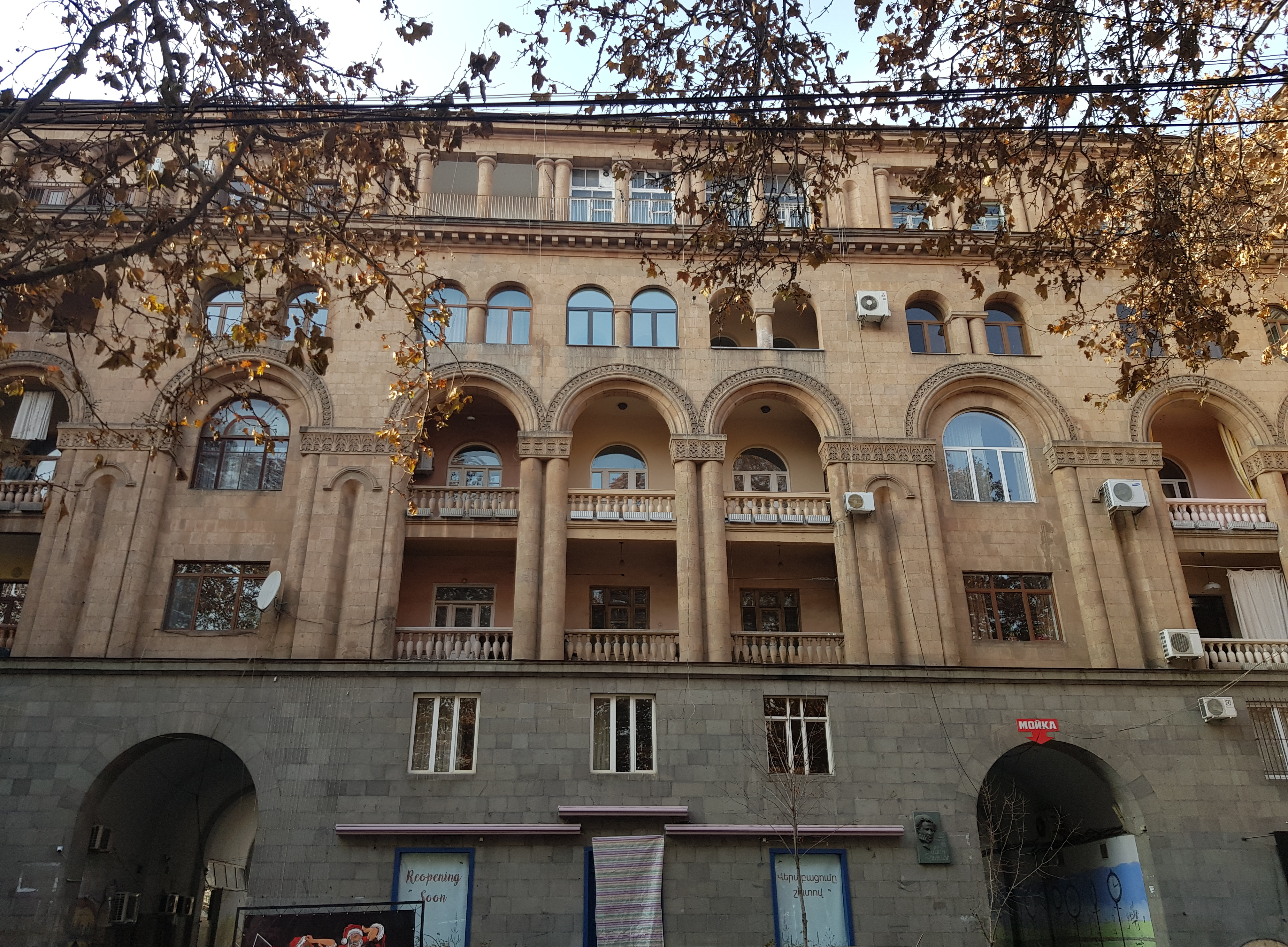 Moskovyan Street 31, Yerevan